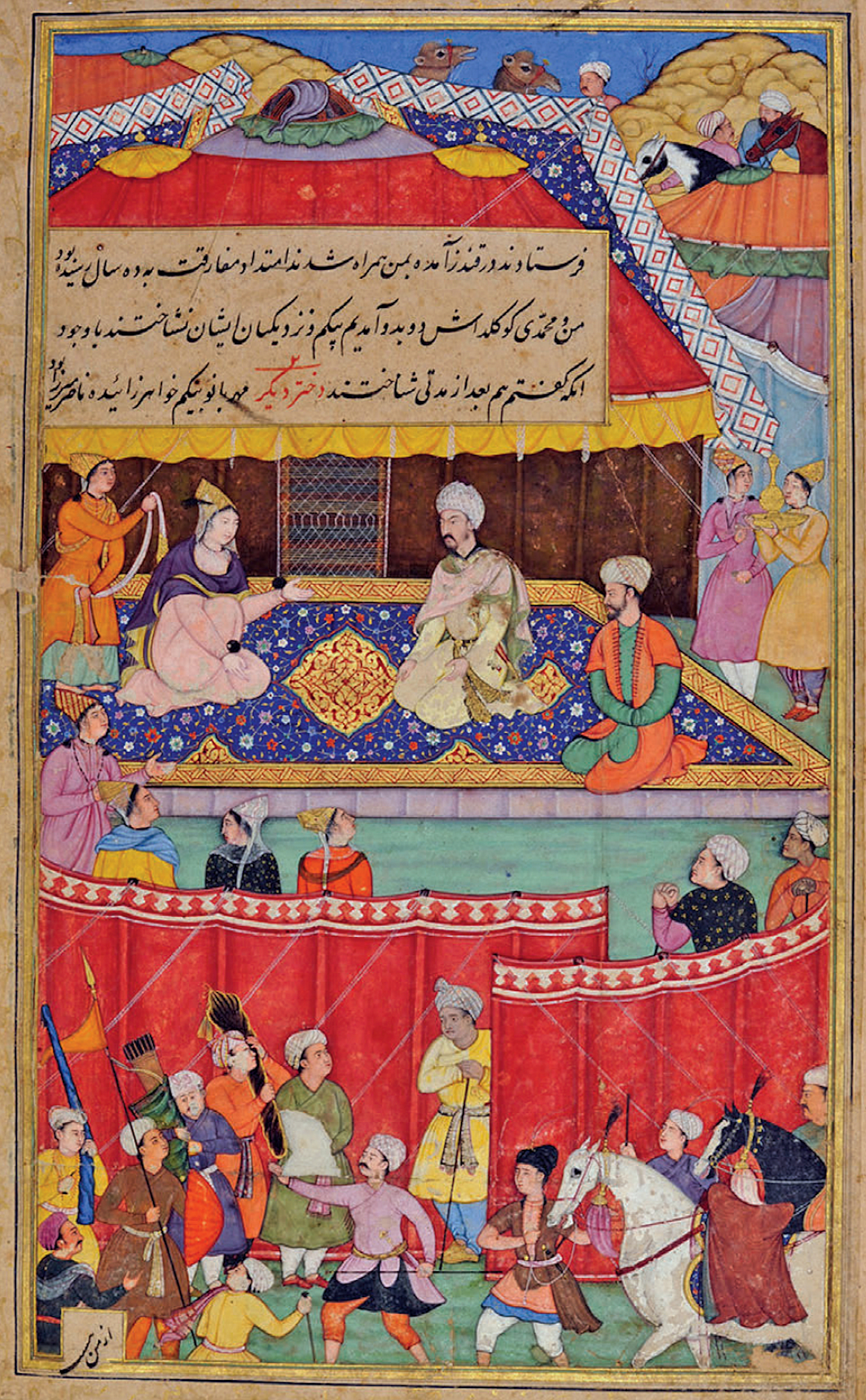 The painting is by Mansur. Here he depicts the reunion of brother and sister at Qunduz in Afghanistan.